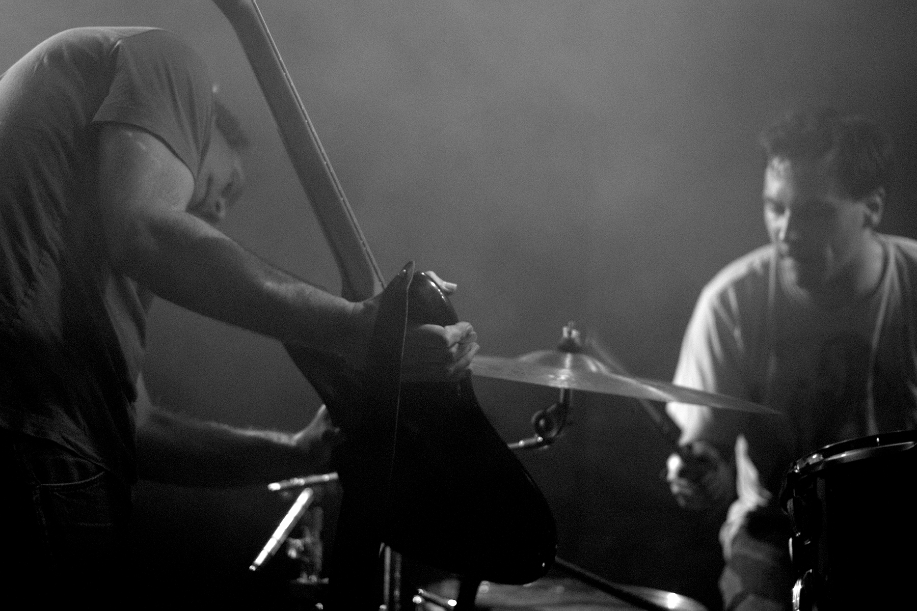 William Zakary Riles and Emil Amos of Grails